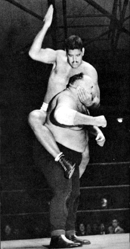 Dara Singh mounted punches to King Kong at JWA in a league match for All Asia Heavyweight Championship